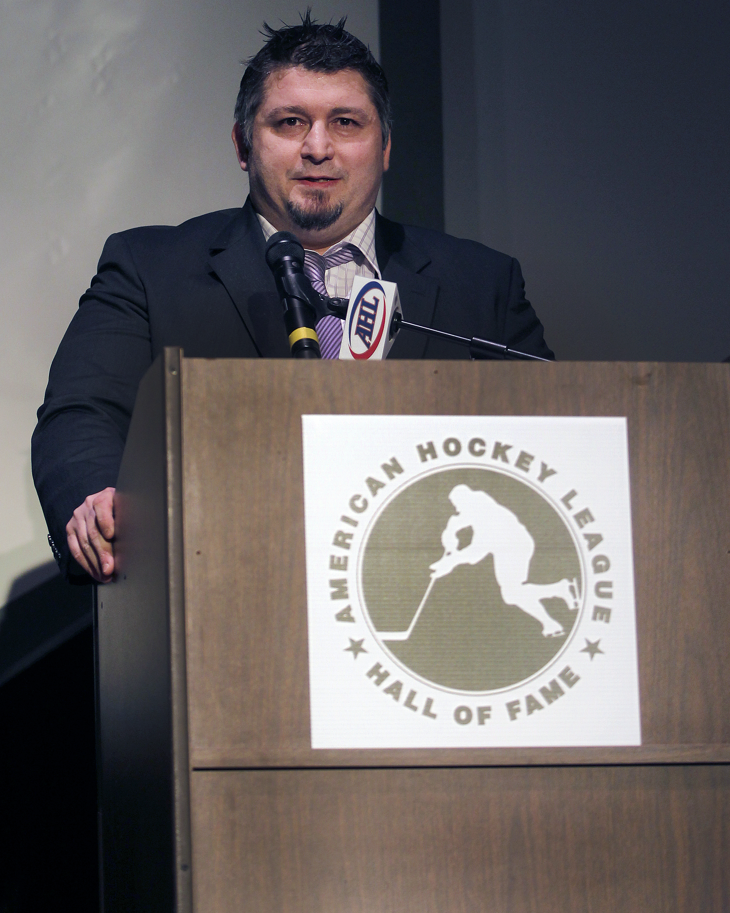 Alan Sullivan - Photographer American Hockey League (AHL). 2013 AHL Hall of Fame Ceremony. Taken on January 28, 2013.